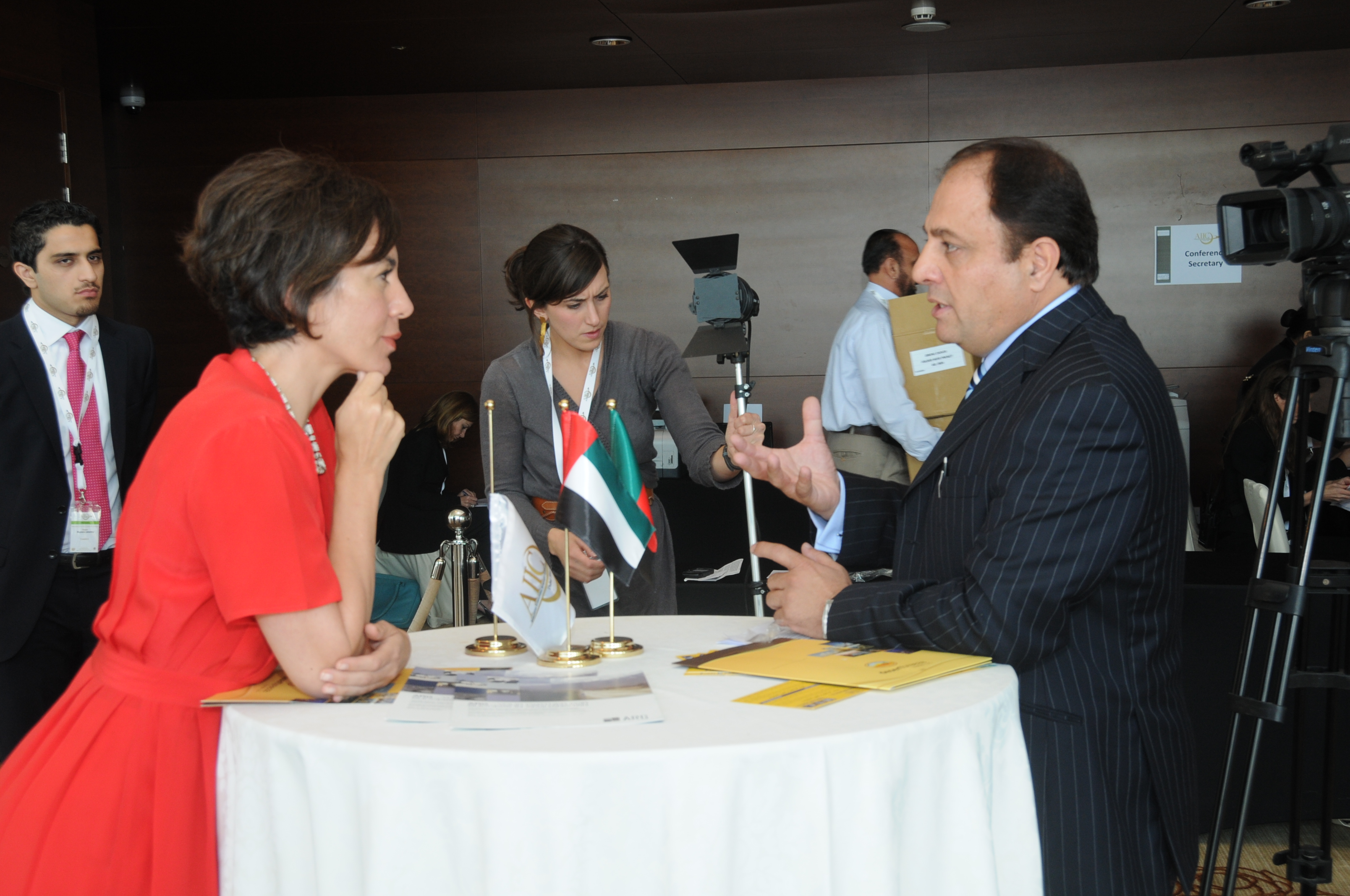 bbc interview